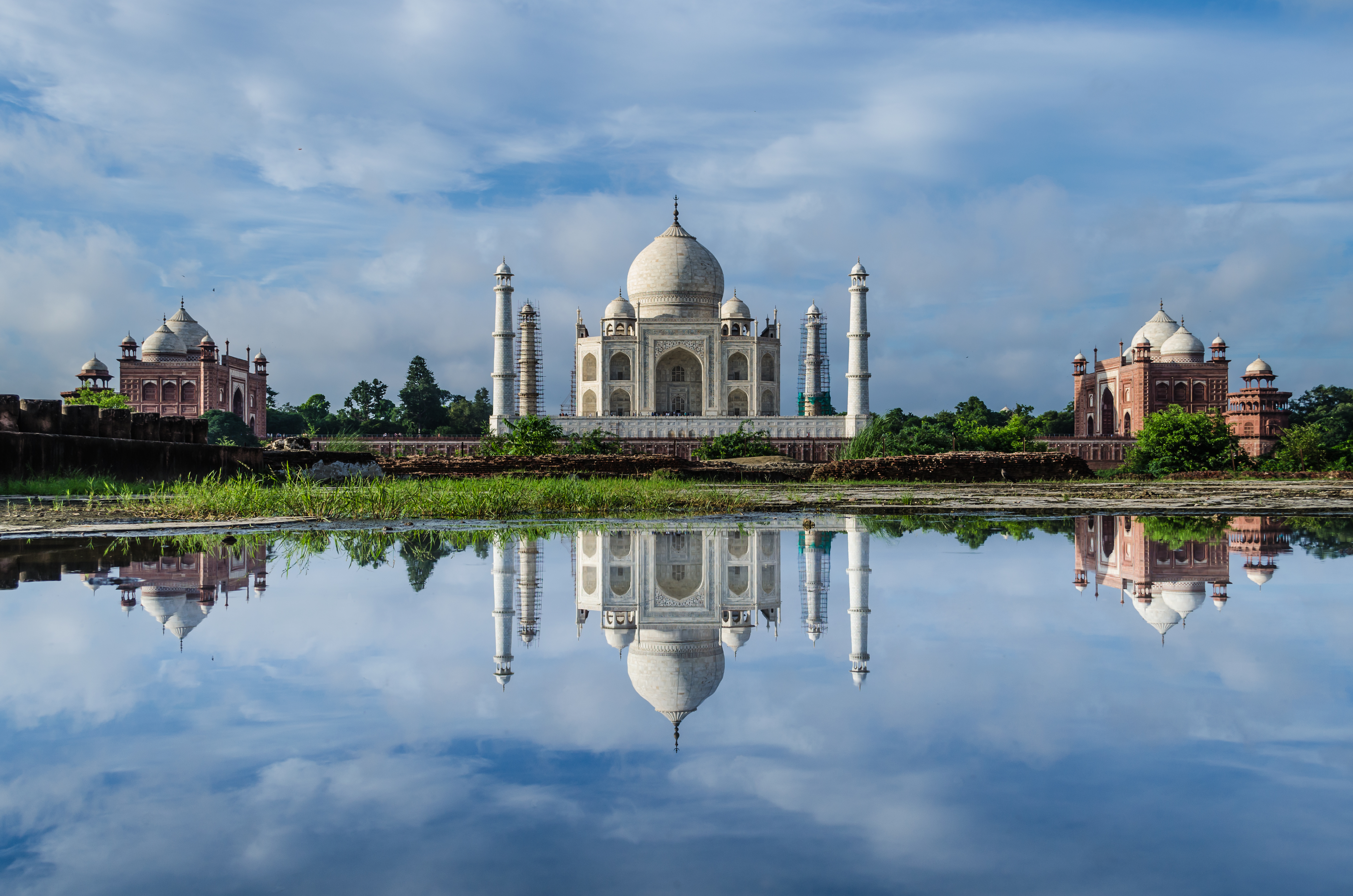 The Reflection Taj Mahal.